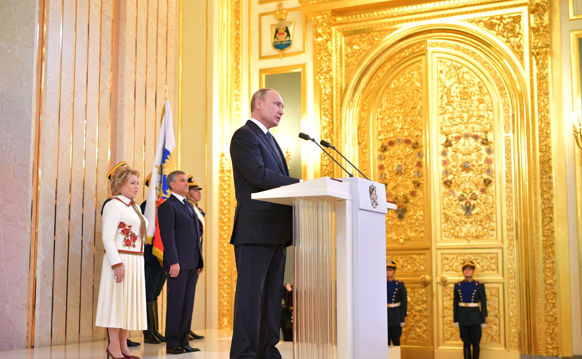 Vladimir Putin has been sworn in as President of Russia (2018-05-07)